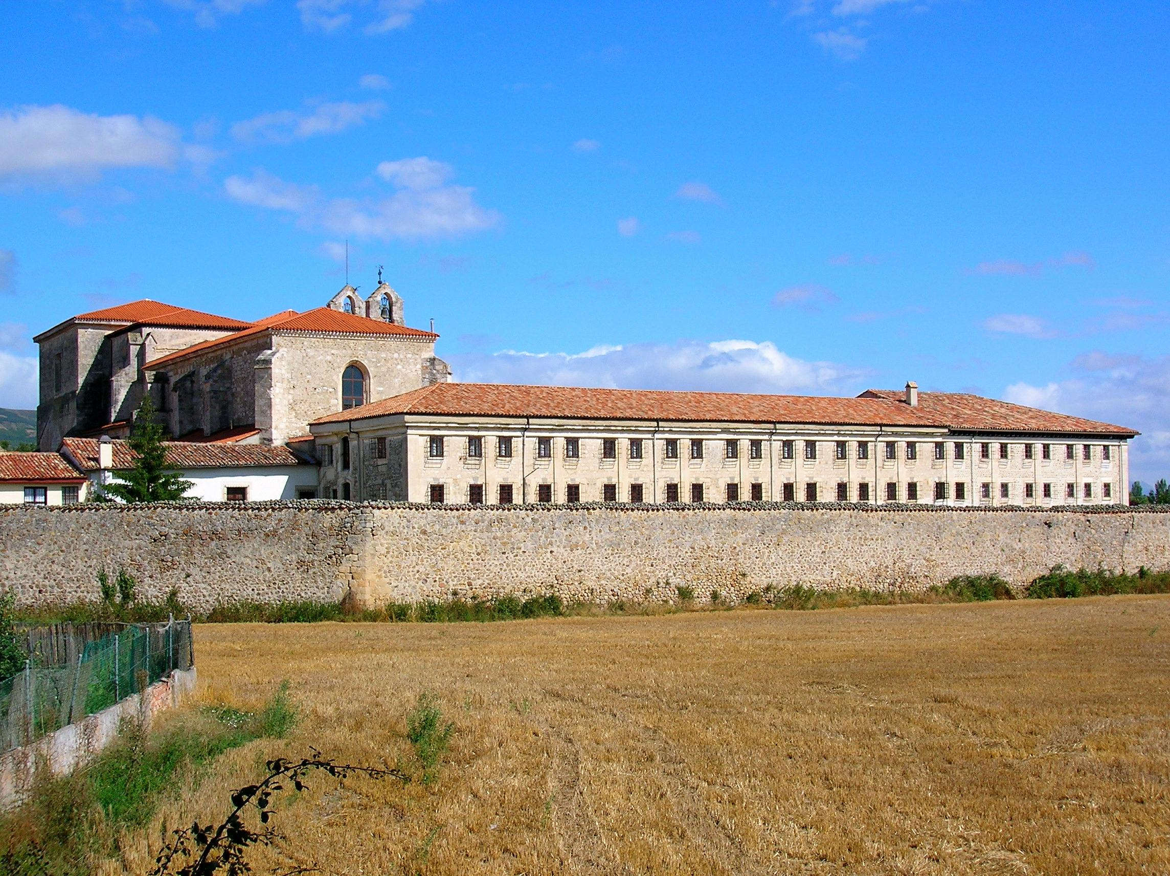 Monasterio de Santa Clara, en Medina de Pomar (Burgos, Castilla y León, España)